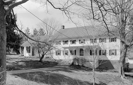 Alexander Campbell Mansion, Route 67, Bethany (Brooke County, West Virginia) (cropped)Significance: The Campbell Mansion and its accompanying landscape is significant not only as the home of Alexander Campbell, a guiding light in the founding of the Christian church movement, but as an important example of the vernacular architecture and landscape associated with a prosperous northwestern Virginia community leader, educator and farmer.